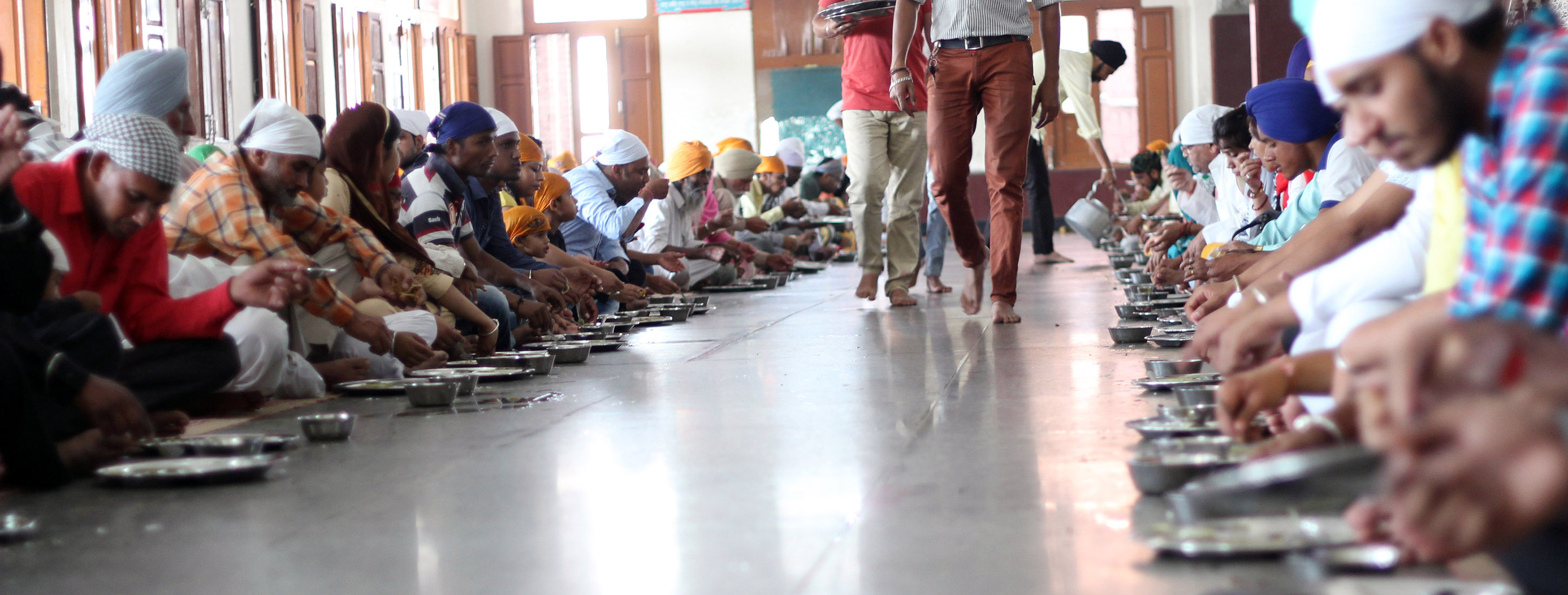 Visitors (without distinction of background) eating food in Langar, Sri Darbar Sahib Amritsar